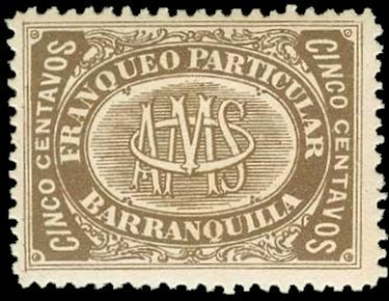 A 5c stamp of the private post of Octavio A.S. Mora.